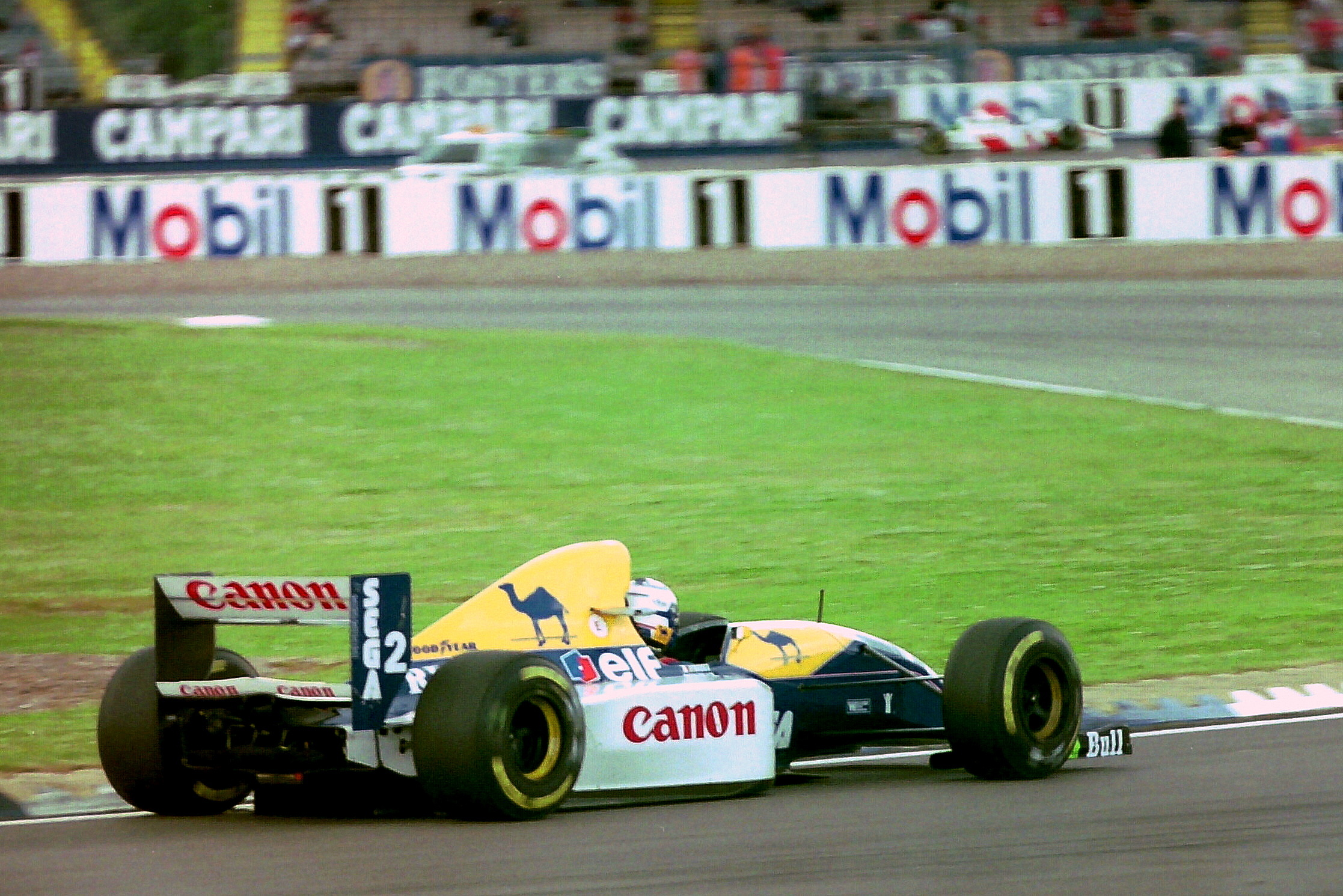 Alain Prost - Williams FW15C at the 1993 British Grand Prix